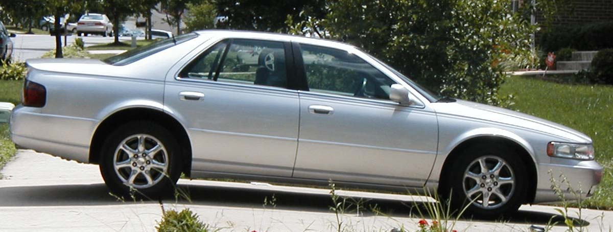 1998-2004 Cadillac Seville SLS photographed in USA.